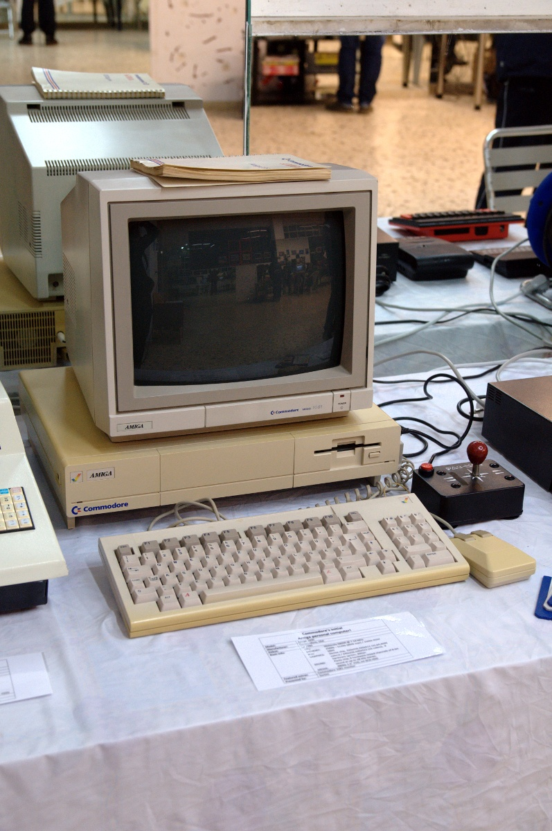 Commodore Amiga 1000 - Retrosystems 2010 “'Nuff said. In fact, you never say anything bad about the Amiga because Commodore fanboys can make Apple fanboys look like choir boys. I never had one of these, but it was a great computer. Honest. Don't kill me!” Tags: amiga exhibit commodore retrocomputing oldcomputers commodoreamiga amiga1000 silogomaniacom collectingcomputers commodoreamiga1000 retrosystem2010 Retrosystems 2010 This retro-computing (and gaming) exhibit on the 4th and 5th of December, 2010, was organised by a forum of collectors, and displayed a number of the Classics.